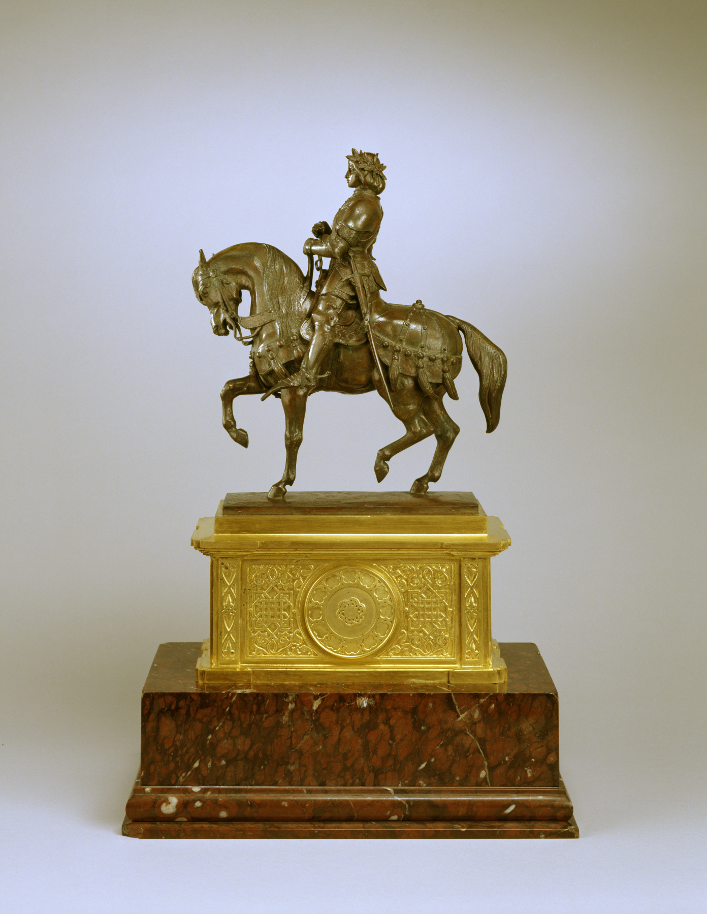 After French forces led by Joan of Arc lifted the siege of Orléans in 1429, Charles (1403-61) was crowned king of France in Reims Cathedral. Although he failed to prevent Joan of Arc from being burnt at the stake, Charles VII succeeded in expelling the English occupiers from Normandy after the Battle of Formigny in 1450 and from Guyenne the following year, thereby establishing the boundaries of France. Charles appears as a youth mounted on a small horse and wearing armor and a laurel wreath symbolizing victory. The statuette is mounted on a gilt-bronze socle, or base, decorated with Gothic interlace designs.